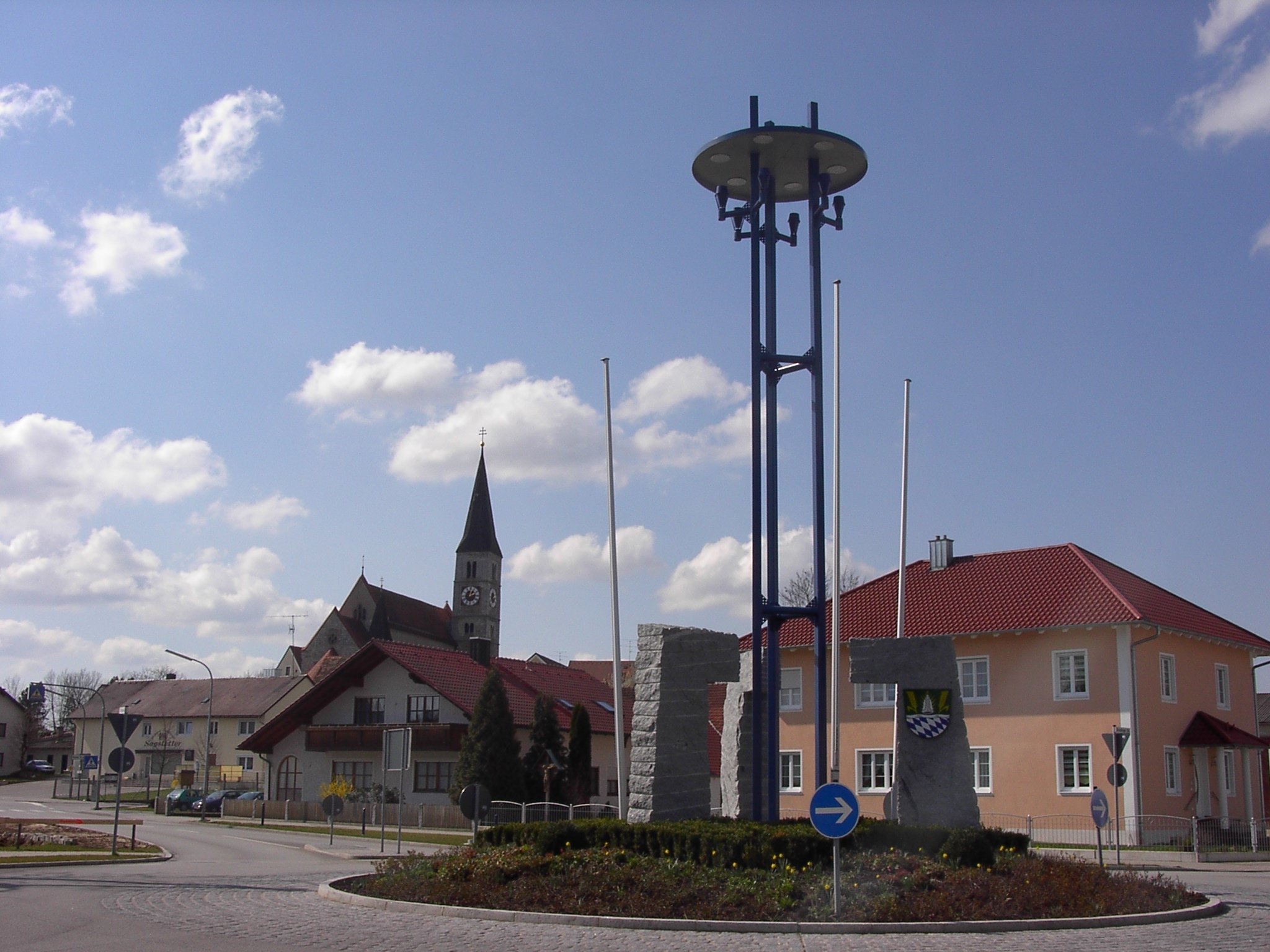 Town center of Aiterhofen